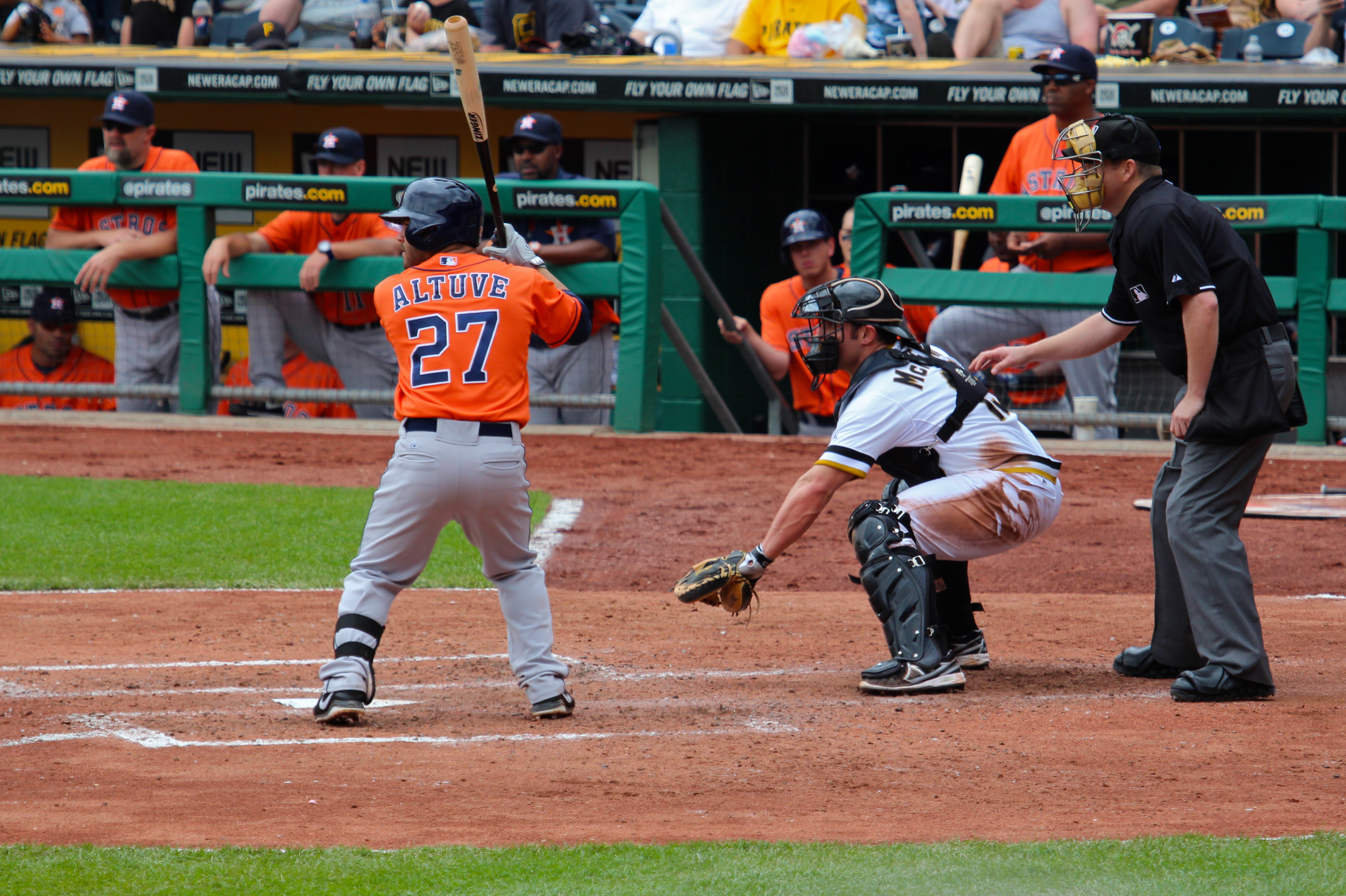 Astros/Pirates at PNC Park, Pittsburgh PA. The diminutive shortstop was batting over .330. On this day however, he would go 0-4.